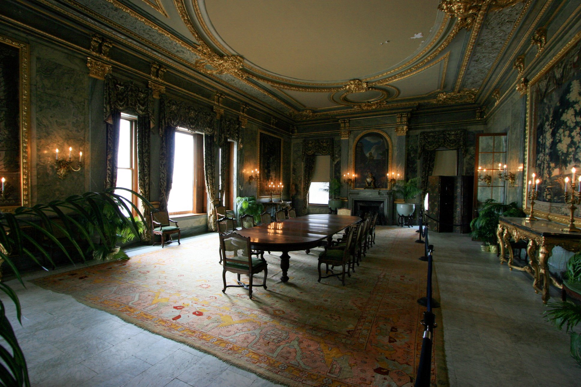 Photograph of the main dinning room of the Mills Mansion in the Staatsburgh State Historic Site, New York, USA.